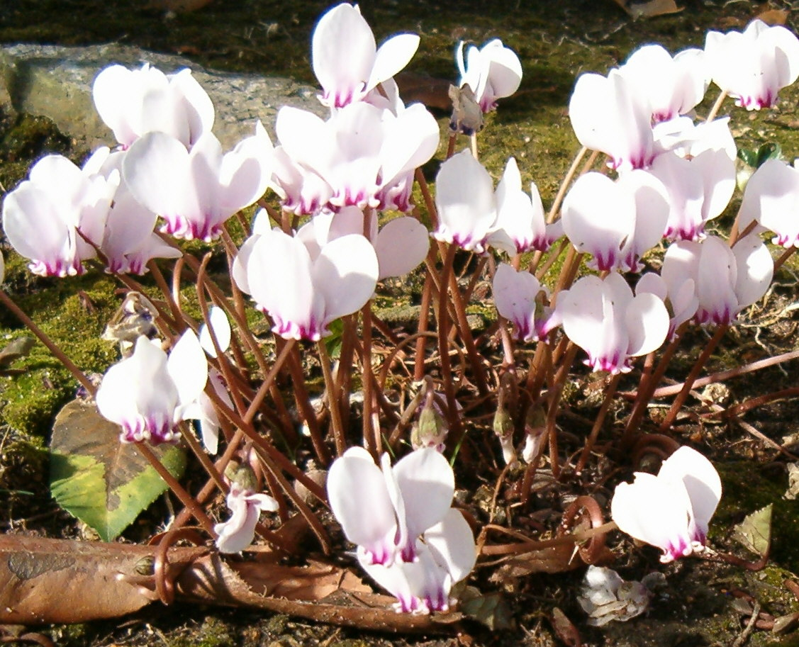 Location: Botanical Gardens Berlin